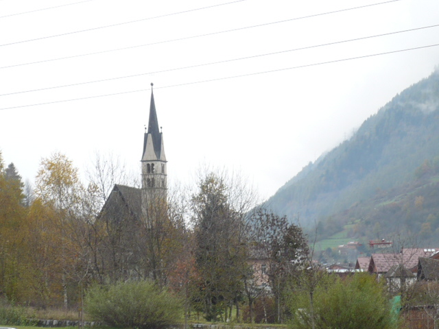 Saint Laurence church in Dimaro, val di Sole, Trentino, Italy